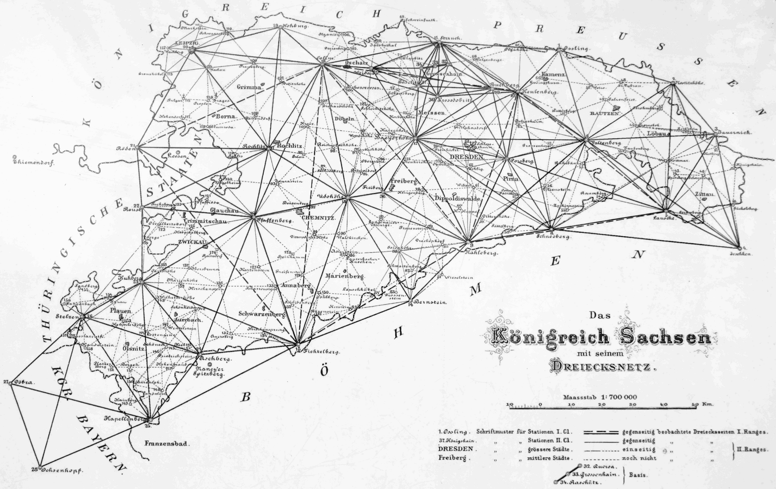 Geodetic control points in Saxony